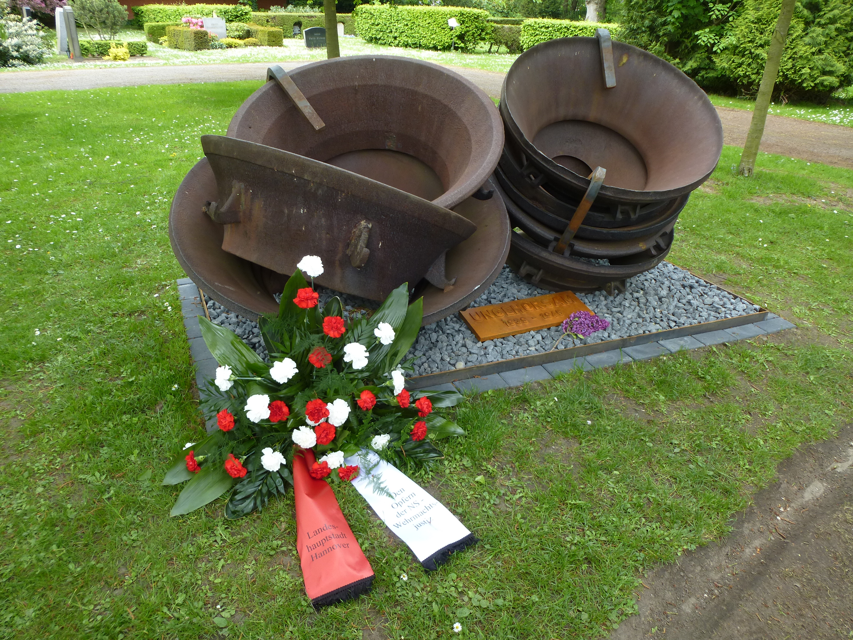 Inauguration of the new information board for the victims of Nazi Wehrmacht justice that were beigestzt at the city cemetery Fössefeld, and the monument "Ungehorsam 1939 - 1945" (disobedience) by Almut and Hans-Jürgen Breuste on 9 May 2015